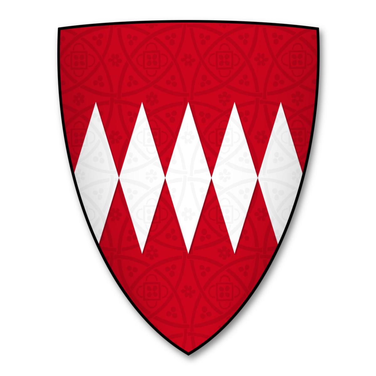 Coat of arms of Elias d'Aubigny, as blazoned in the Caerlaverock Poem (K-035: "Elys de Aubigny") "Baniere ot rouge ou entallie Ot fesse blanche engreellie." Arms: Gules, a fess indented [of fusils] argent.